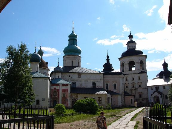 Kirillo-Belozersky Monastery. Churches of Eiphanij & Vladimir, Uspensky Cathedral and Belltower